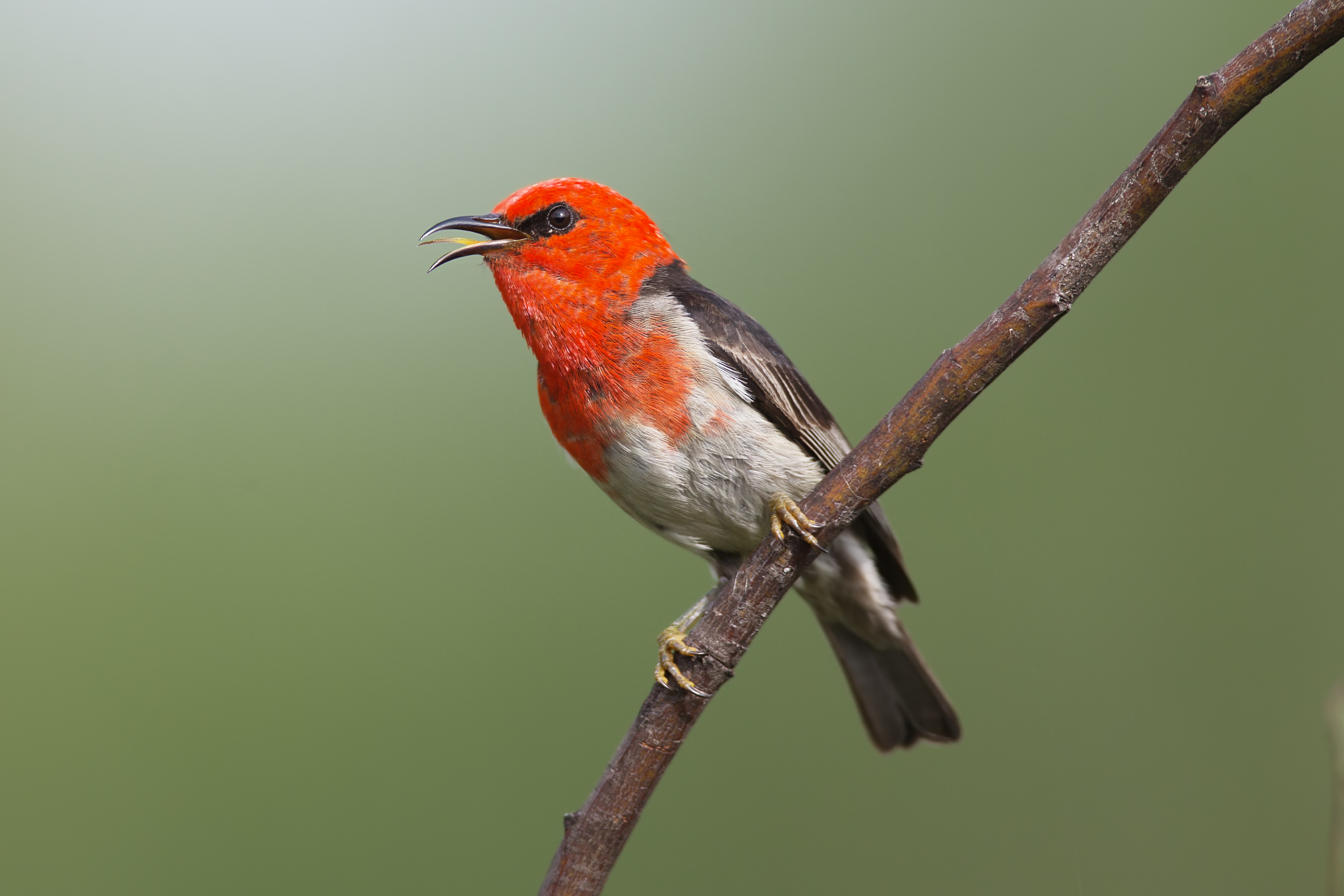 Scarlet Myzomela (Myzomela sanguinolenta) male, Windsor Downs Nature Reserve, New South Wales, Australia